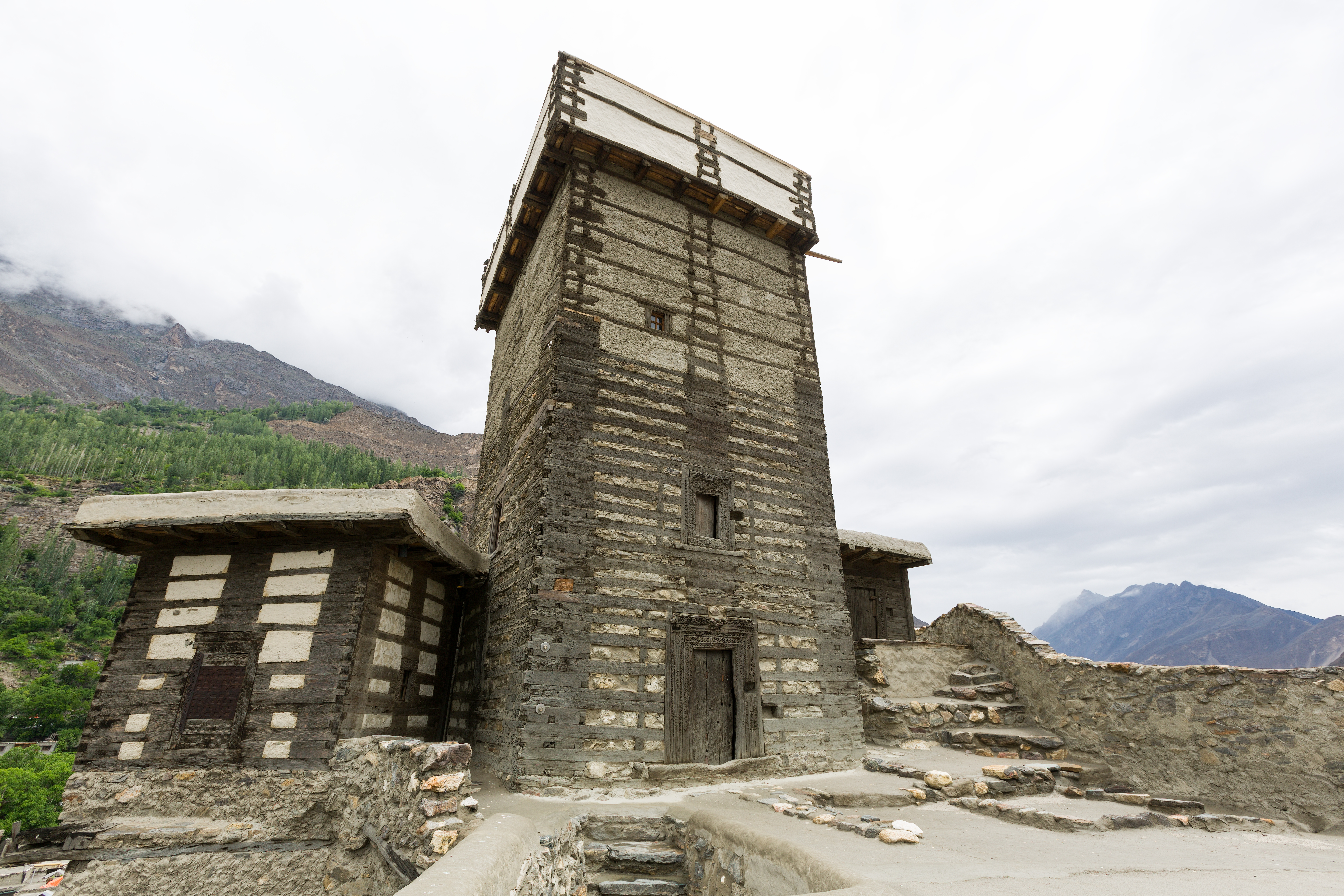 Altit Fort is an ancient fort in the Hunza Valley. It has been recently restored, but some structures that are over a thousand years old, still stand. This is a photo of a monument in Pakistan identified as the GB-16